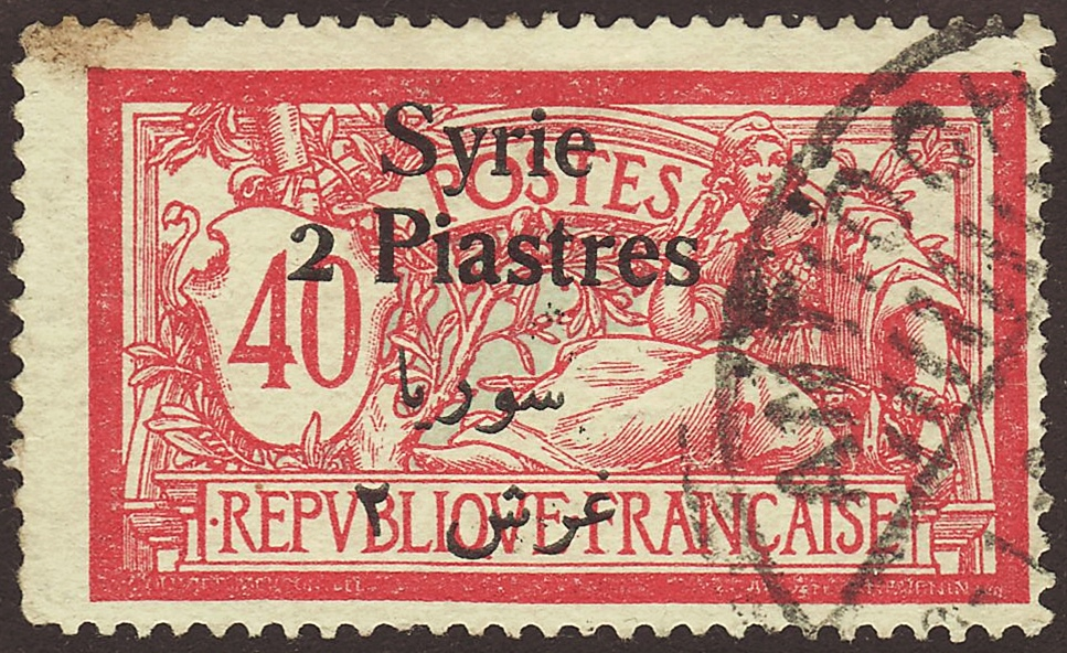 Stamp of Syria; 1924; overprint stamp of the French definitive stamp of the "Type Merson"; four-lines, bilingual, black overprint "SYRIE / 2 Piastres / ("Syrie" in Arabic) / (value in Arabic)"; allegorical drawing of a sitting woman ("Type Merson") with light-blue underpress; stamp postmarked Stamp: Michel: No. 240II (= France No. 96x from 1900 with overprint); Yvert et Tellier: No. 135 (= France No. 119 from 1900 with overprint) Color: red with light blue underpress and black overprint Watermark: none Nominal value: 2 (Piasters) Postage validity: from 17 July 1924 until 17 April 1946 Stamp picture size (printed area): 36.0 x 20.5 mm